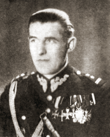 Stefan Mayer (1895-1981) – Colonel of the Polish Army